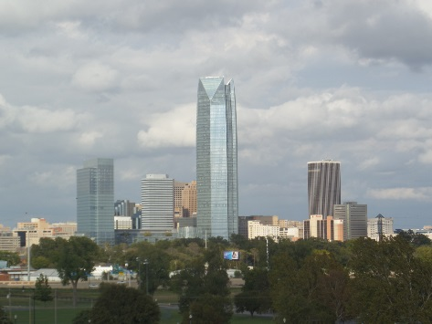 Oklahoma City Downtown Skyline as seen from the Wheeler Ferris Wheel